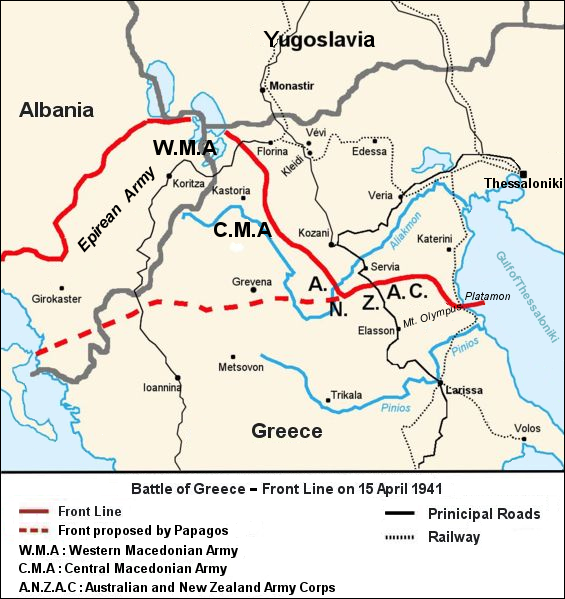 English translation based on French original }